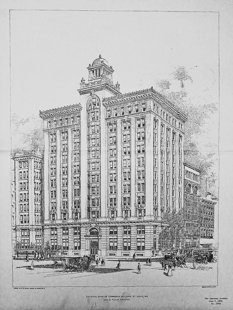 Isaac Taylor's National Bank of Commerce, St Louis (USA), from pre-1923 issue of Inland Architect and News Record.